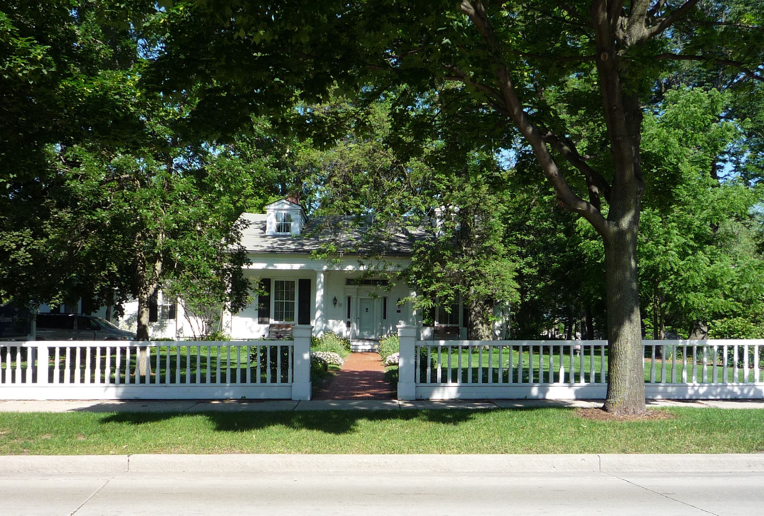 Hazelwood Historic House Museum (built in 1837 and placed on the National Register of Historic Places in 1964), also home of the Brown County Historical Society, Green Bay, Wisconsin, USA.